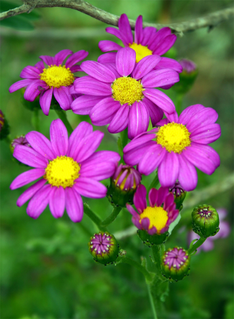 Senecio elegans at Humboldt Bay National Wildlife Refuge Complex, California, USA